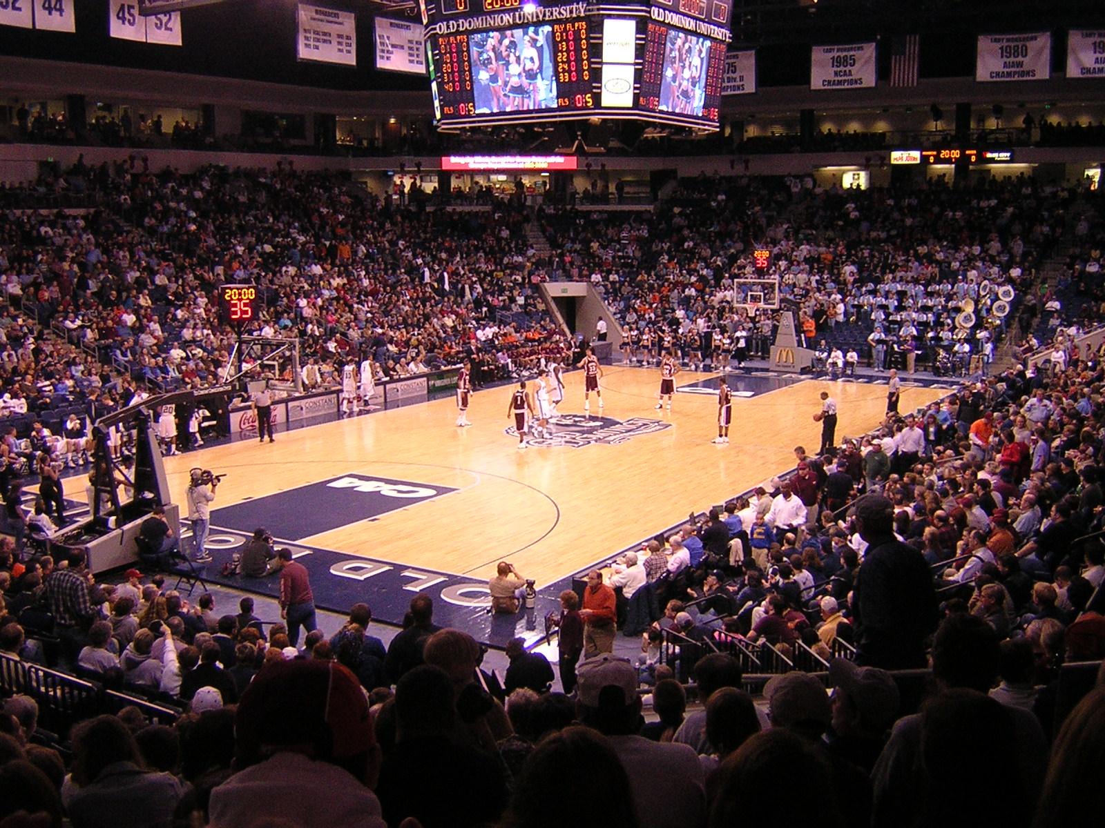 The Virginia Tech Hokies take on the Old Dominion Monarchs at the Ted Constant Convocation Center in Norfolk, VA.